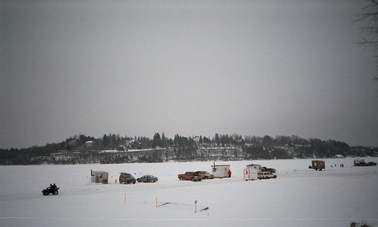 Ice fishing in Canada on the Ottawa river between Ottawa, Ontario and Gatineau, Quebec. I have taken this picture with my camera and I am placing it in the public domain. --AlainV 01:43, 12 Jan 2005 (UTC)